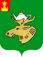 Old Coat of Arms of Verbilki (Moscow Region)